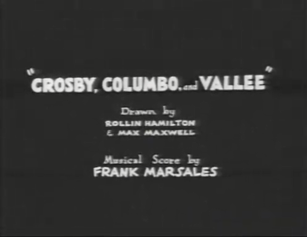 Title card of the 1932 cartoon